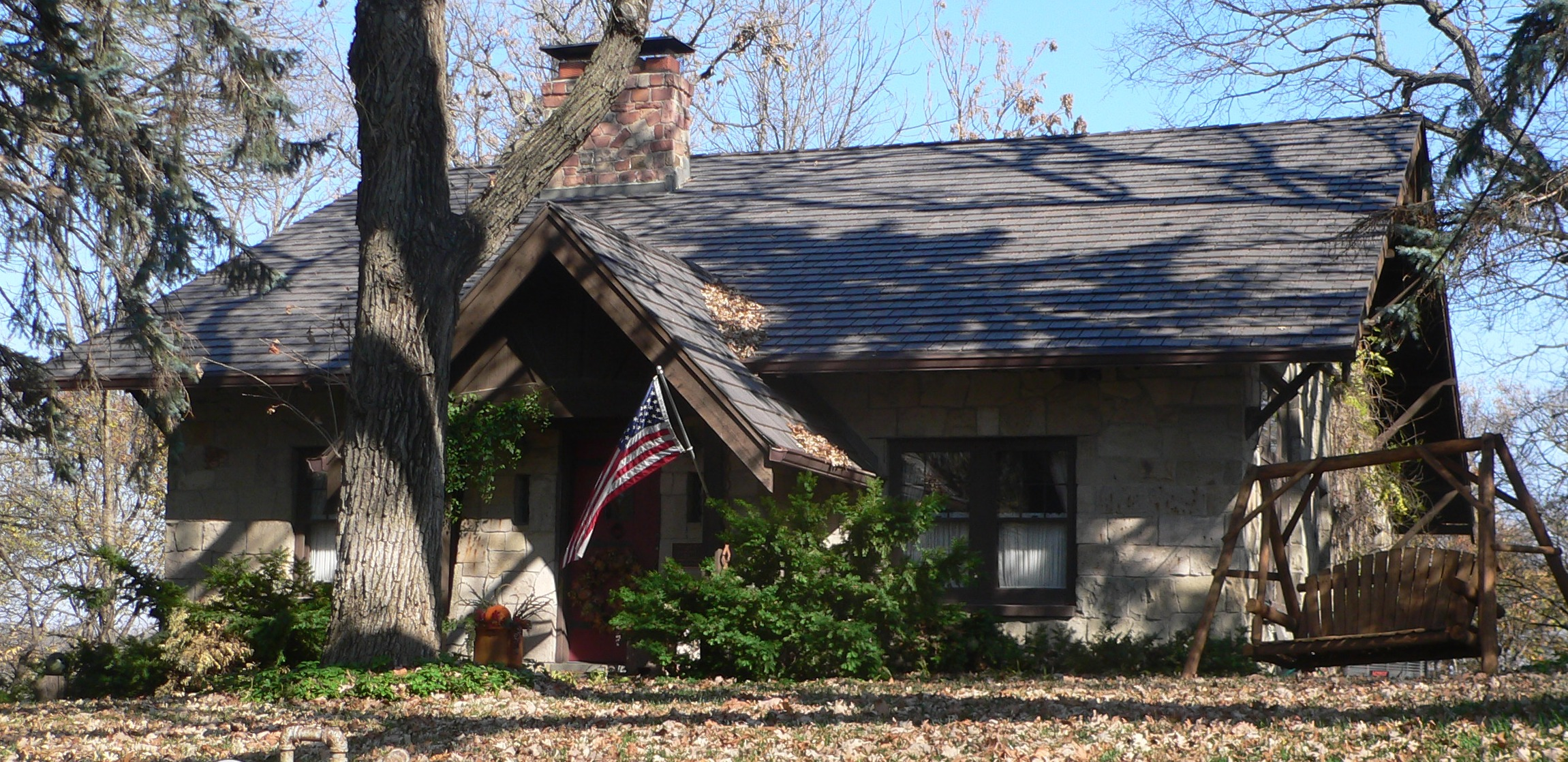 William E. Gordon house, located at 711 Bellevue Boulevard S. (northeast corner of Bellevue Blvd and Hidden Hills Dr) in Bellevue, Nebraska; seen from the southeast.